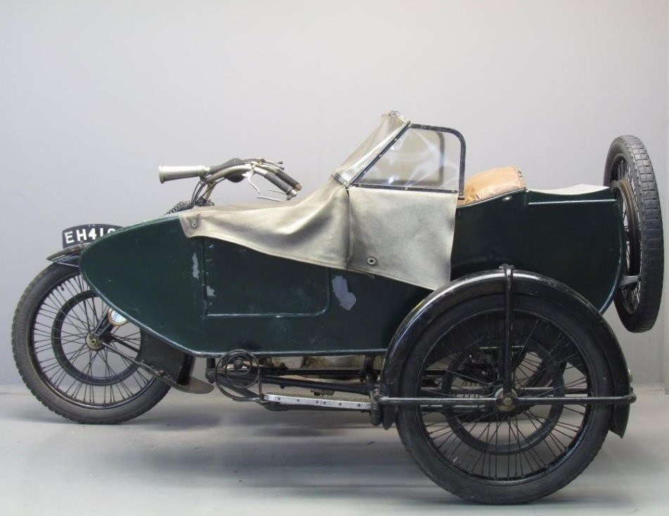 1923 BSA Model F 1000cc-V-twin motorcycle